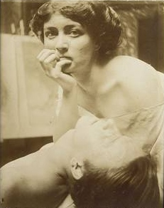 Alfons Mucha, study